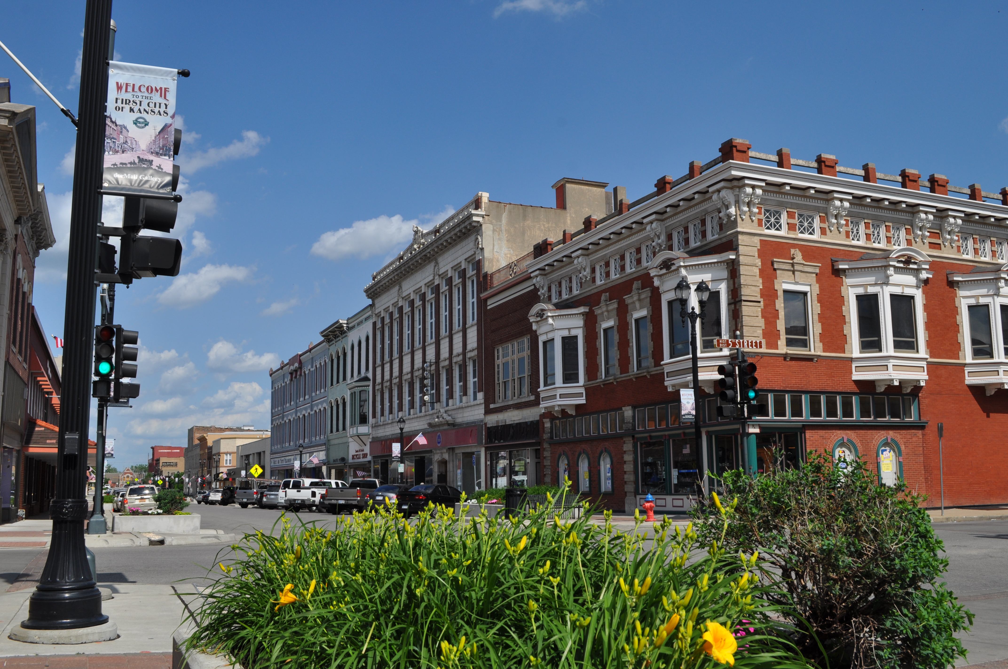 The corner of Delaware Street and Fifth Street in downtown Leavenworth, Kansas, in 2014.